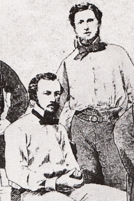 Members of the 1859 Victoria cricket team: Tom Wills (seated), William Hammersley (standing).